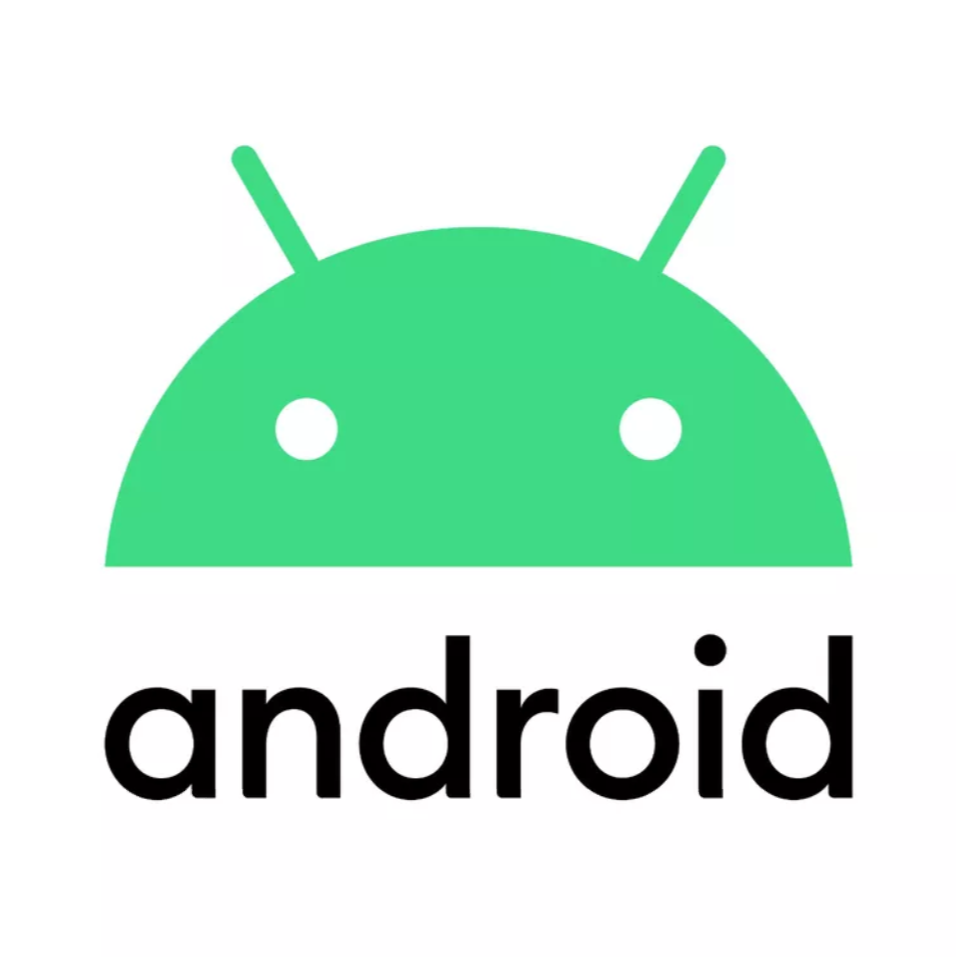 Logo introduced after the Android rebranding in 2019